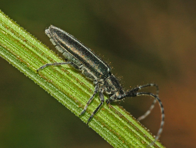 Agapanthia cardui